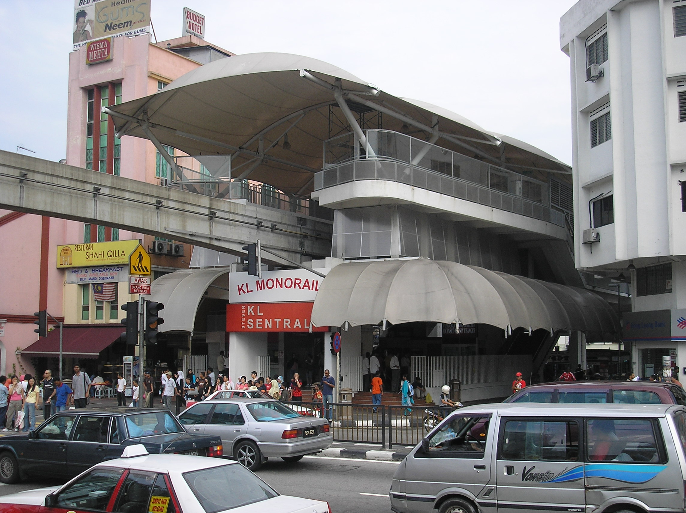 The KL Sentral terminal station (Kuala Lumpur Monorail) (exterior), Kuala Lumpur, Malaysia.